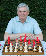 Alan Fersht, British chemist